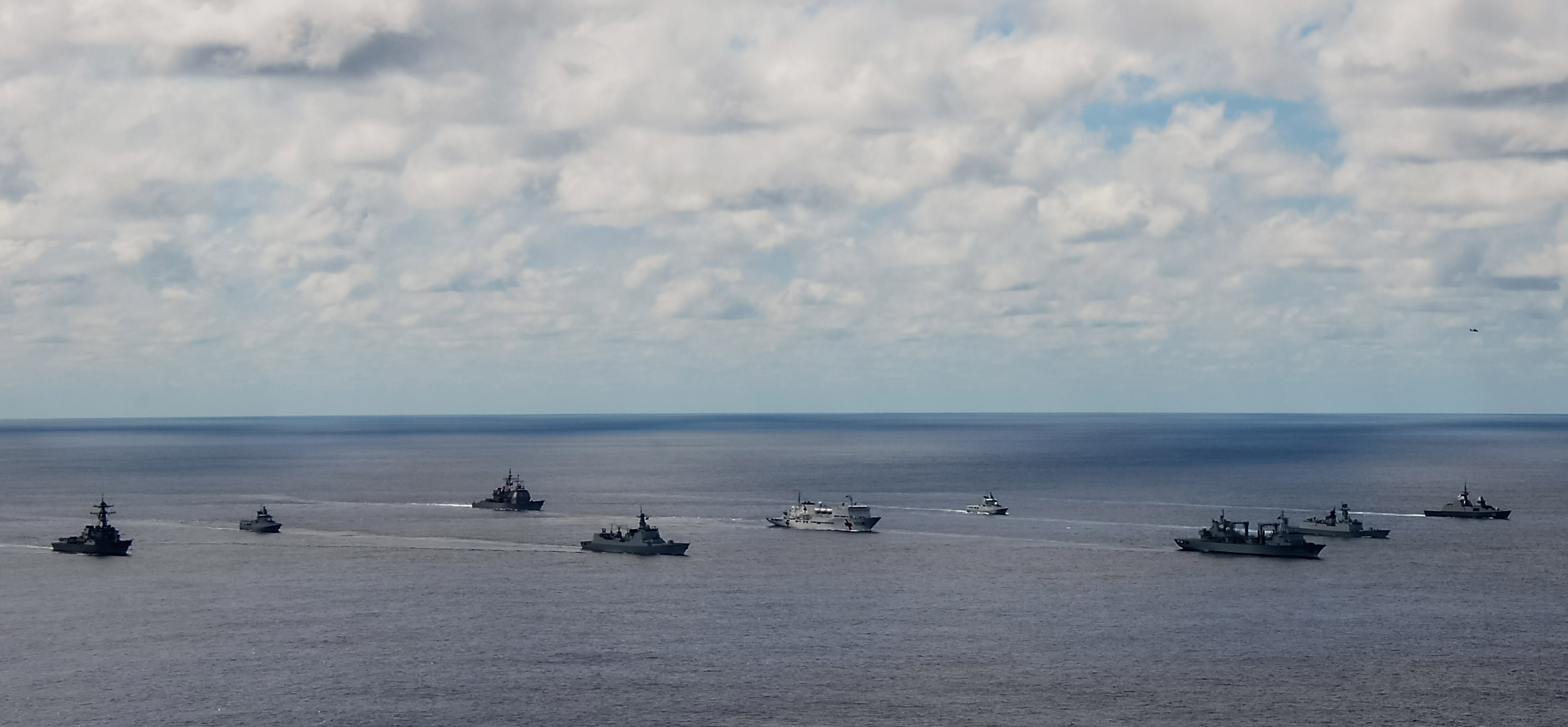 A multinational task force consisting of ships from Brunei, Singapore, the People’s Republic of China and the United States, led by the guided-missile cruiser USS Chosin (CG 65) and including the guided-missile destroyer USS Howard (DDG 83), transits the Pacific in formation during a group sail from Guam to Pearl Harbor.中文（中国大陆）: 一个由来自文莱、新加坡、中国和美国的舰艇组成的多国特混编队，在美国“乔辛”号导弹巡洋舰（舷号65）和“霍华德”号导弹驱逐舰（舷号83）的带领下从关岛出发，穿越太平洋，驶向珍珠港。